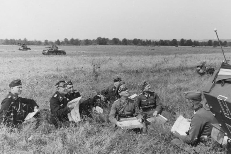 Information added by Wikimedia users.EN Translation: Western campaign, France [June 1940]; Brig. Gen. Erwin Rommel (center) at briefing / studying maps with his officers; 2nd from left Colonel Karl Rothenburg [commander of 25th Panzer Regiment] EN Translation (original caption before Feb. 2016): Brigadier General Rommel [3rd from right]; with the [25th] Panzer Regiment during Western campaign June 1940; 2nd from left Colonel Karl Rothenburg (Knight Cross awarded on 3 June 1940 with the Pour le Mérite); Captain [Adalbert] Schulz, Chief of 1st [battalion of] the 25th Panzer Regiment, later, as a Brigadier General, commander of the 7th Panzer Division.